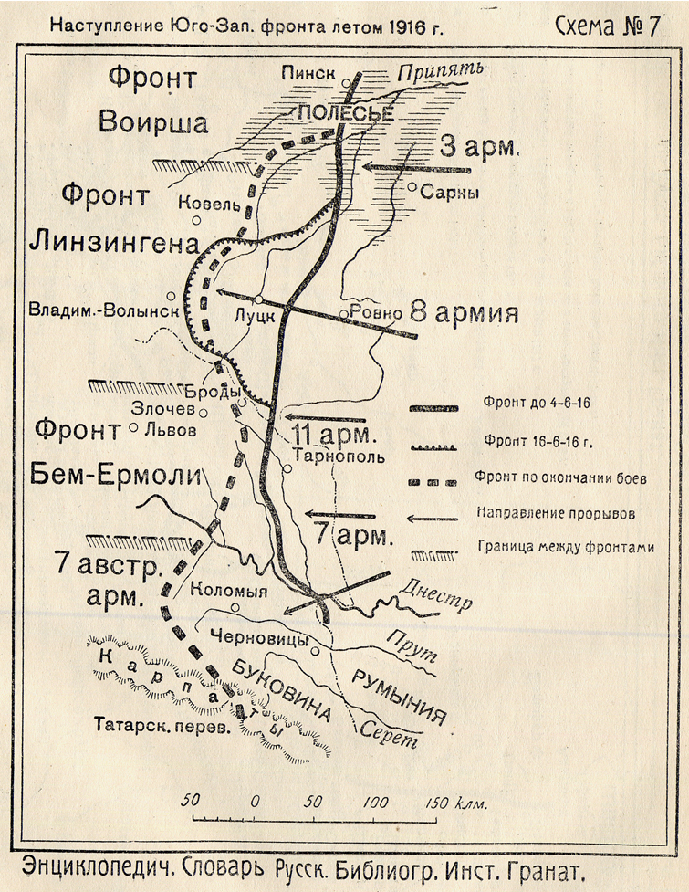 Offensive of the Russian South-Western front (Brusilov offensive), 1916, with starting positions on 4 June (thick solid line), initial advances on 16 June (thinner jagged line), and final positions on 20 September (dotted line). Arrows show the direction of attacks of the 3rd, 8th, 11th, 7th and 9th armies (the last unlabeled). The offensive's original objective, Lemburg, would be near the left edge of the map in the center.